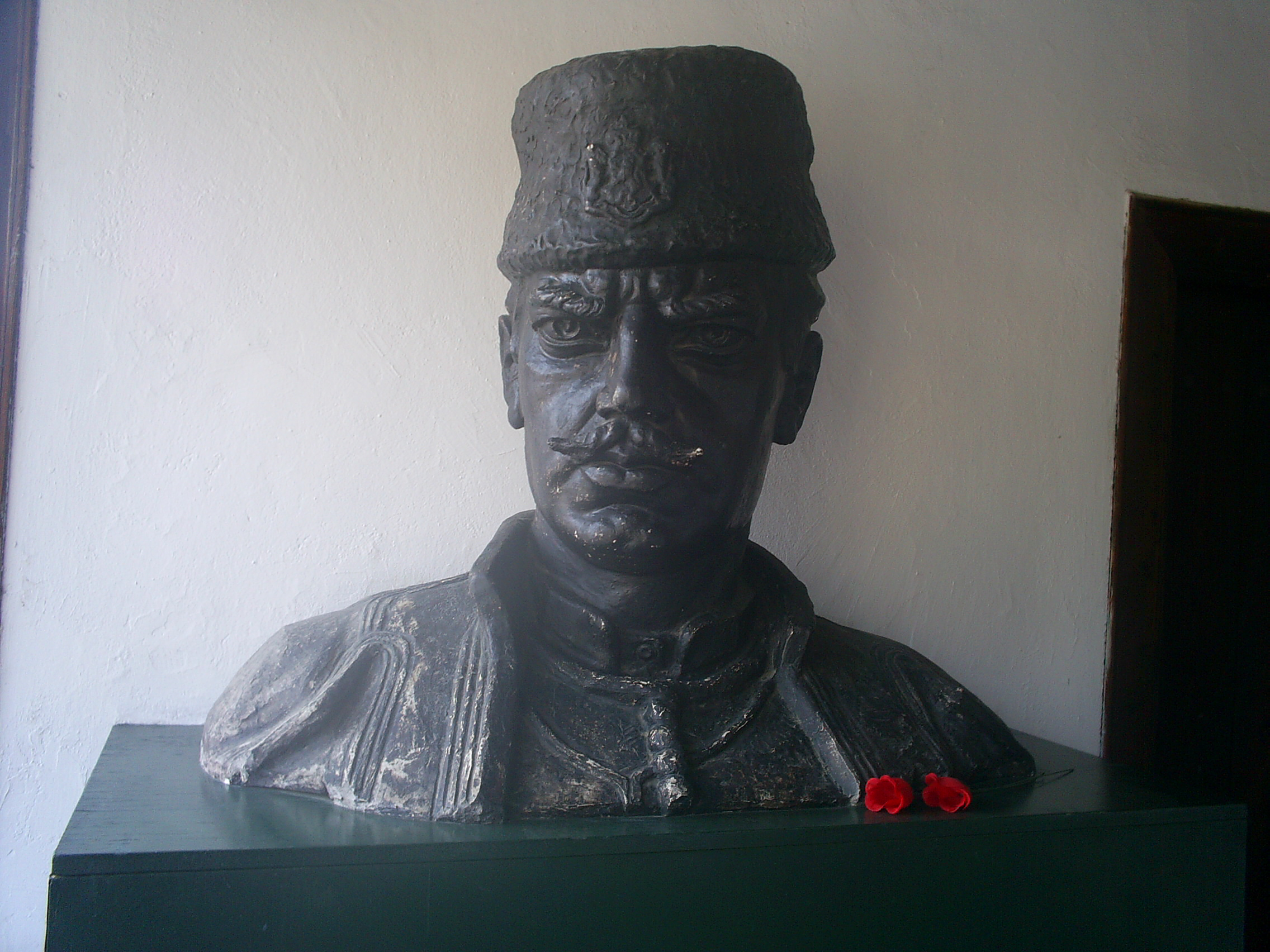 Bust of the Bulgarian revolutionary Hadji Dimitur, in his house-museum in Sliven